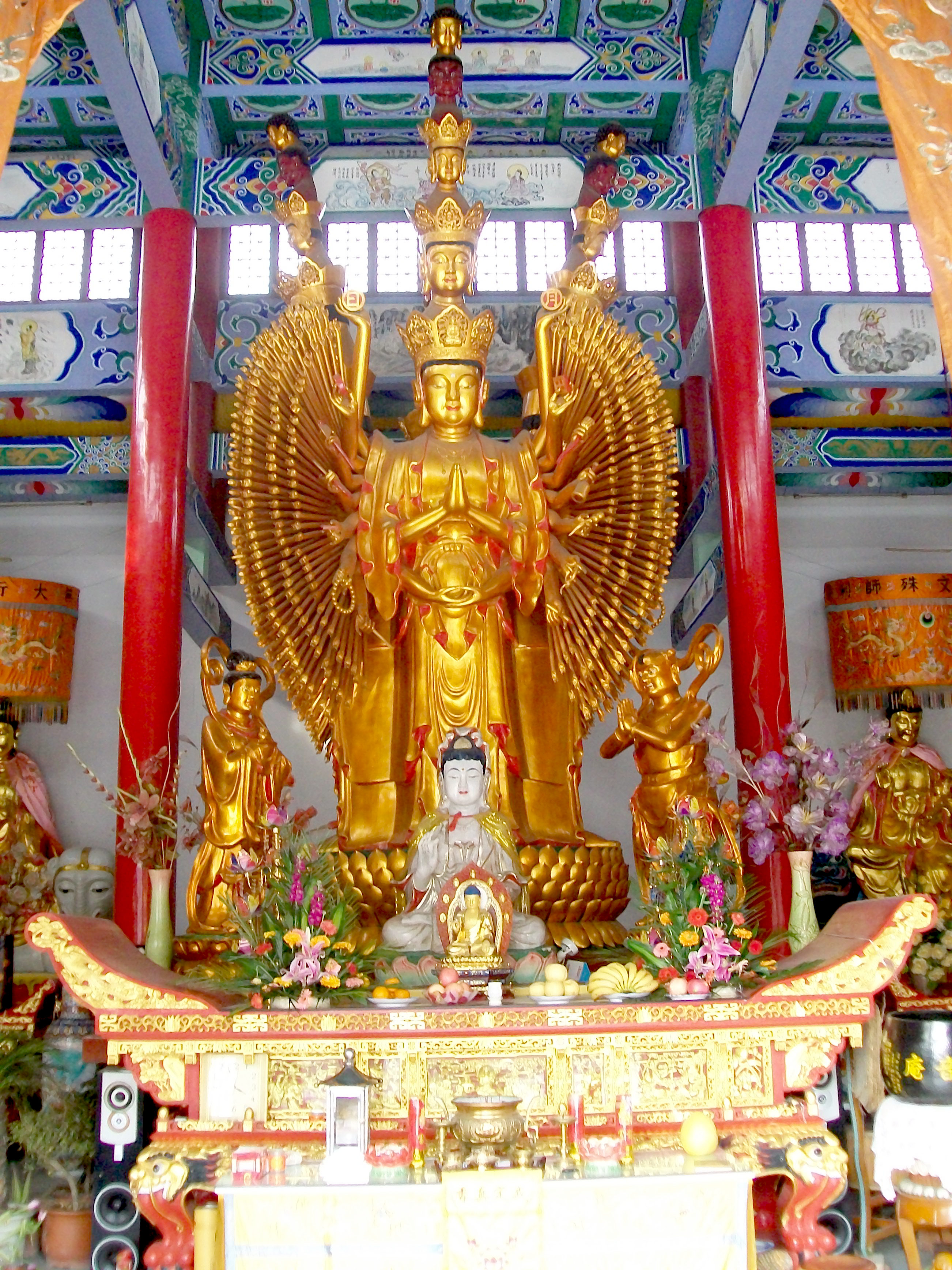 Large statue of Avalokitesvara Bodhisattva with 1000 arms. Guanyin Nunnery, Anhui province, China.